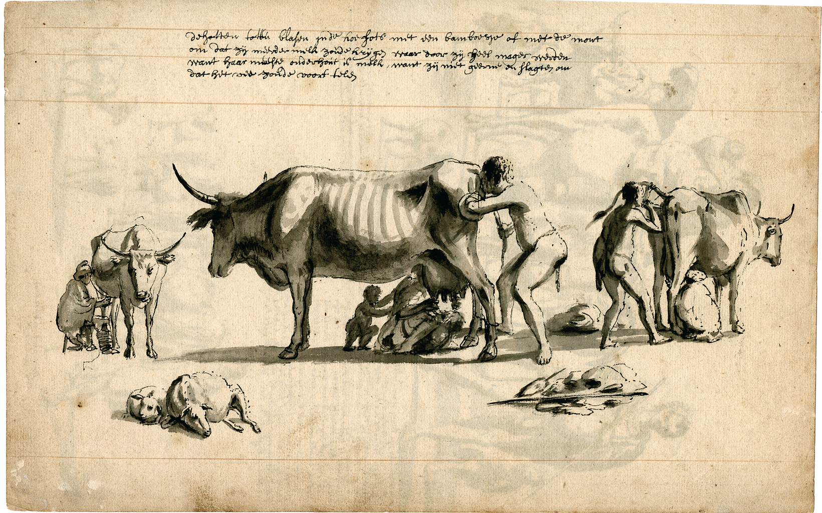 This sketch is from a set of 27 drawings on 15 sheets that was discovered in the National Library of South Africa in 1986. The drawings are important for presenting the earliest realistic depictions of the Khoikhoi, the original inhabitants of the Western Cape. The drawing shows Khoi men and women milking large African cattle. Milk was a main means of sustenance for the Khoi, and African herders developed special techniques to make a recalcitrant cow produce milk, even if her calf had died. The note, in Dutch, describes these practices and indicates that the Khoi were extremely reluctant to slaughter cattle, which were needed both for breeding and for their milk. Much information about the Khoikhoi is available from early European accounts, but few illustrations exist. The drawings in the collection were made in situ and, unlike most early European depictions of the Khoikhoi, were never filtered through the eyes of European engravers. The artist most likely was a Dutchman, born in the 17th century, who was attached in some capacity to the Dutch East India Company and possibly en route to the Dutch East Indies or on his way back to the Netherlands when he visited the Cape. Evidence suggests that the drawings were made no later than 1713, and possibly a good deal earlier. Most of the drawings have annotations, made by another person, also unidentified, after 1730. Cape of Good Hope; Cattle; Indigenous peoples; Khoikhoi (African people); Milking